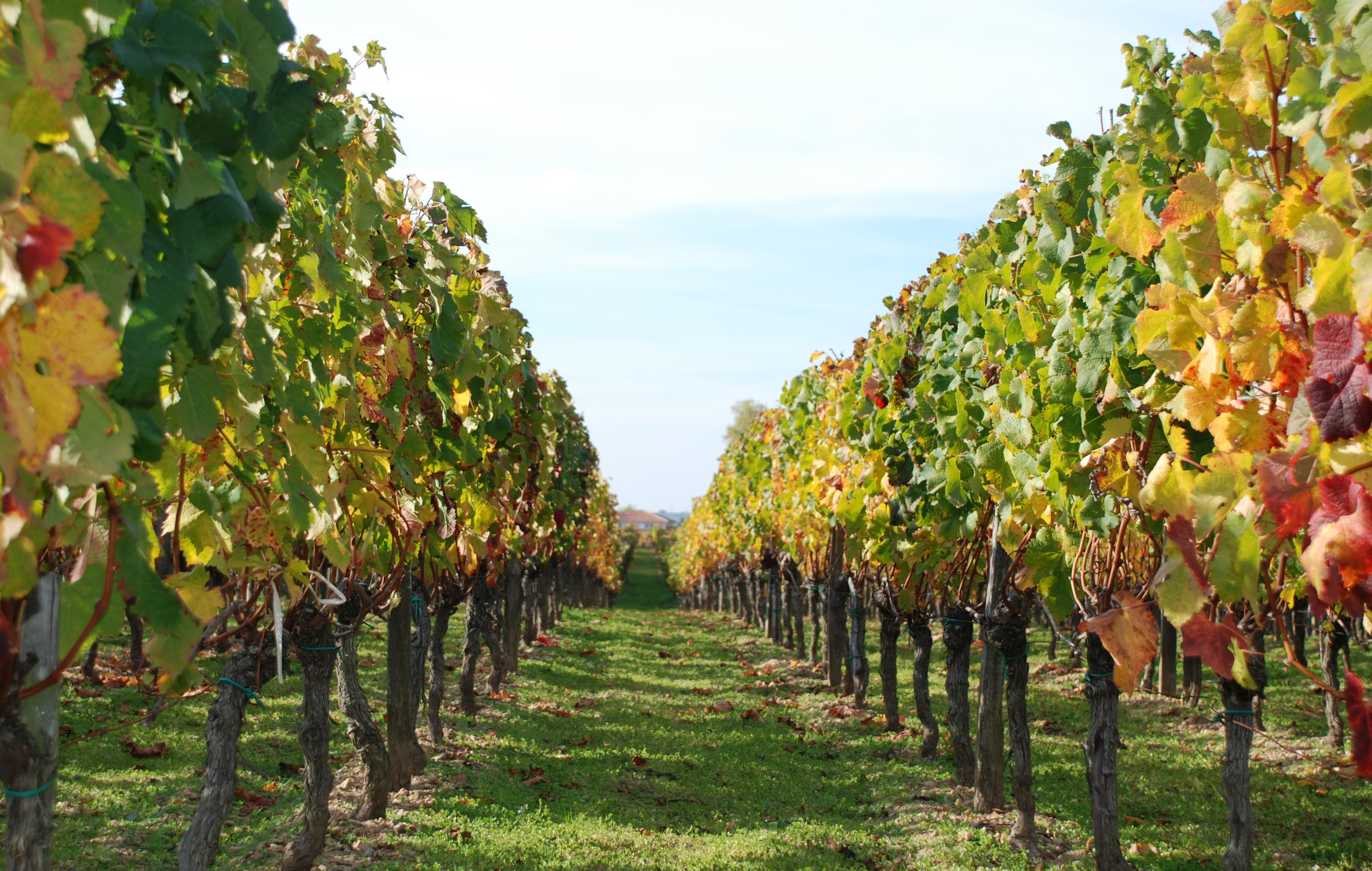 After harvest and before fall, the foliage of the vines takes colors ranging from yellow to purple and everything in shades of red and orange in Lalande de Pomerol.